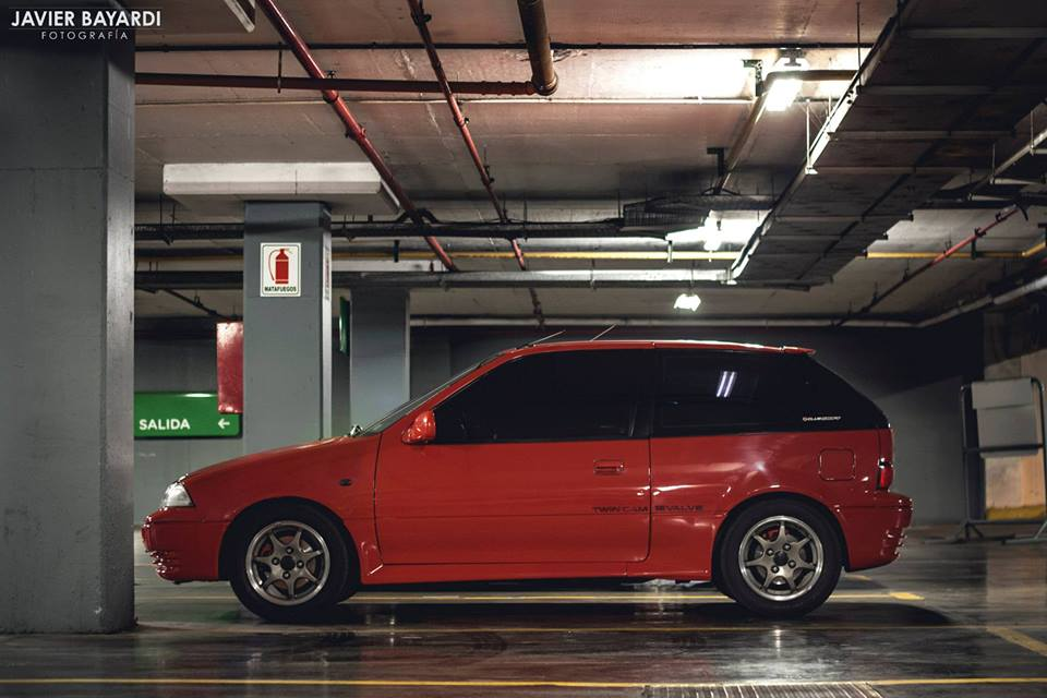 Suzuki Swift GTI, MK III .. it's part of the second generation.